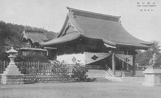 Anshan Shrine